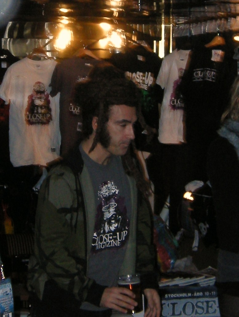 Robban Becirovic, Close-Up Boat february 2011